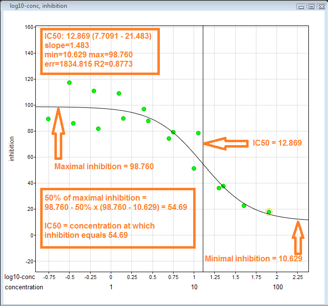 Visual demonstration of how to derive IC50 value: Arrange data with activity (%) on vertical axis and log(concentration of inhibitor) on horizontal axis; then identify max and min inhibition; then the IC50 is the concentration at which the curve passes through the 50% inhibition level. Note: There is a slight error in the picture. Maximal inhibition would occur at the lowest part of the curve and minimum at the highest. Alternatively, it could be read as maximal activity on the left and minimal activity on the right. Also, the calculation, while correct, can be simplified: 50% of maximal inhibition = 50% X (98.760 + 10.629)